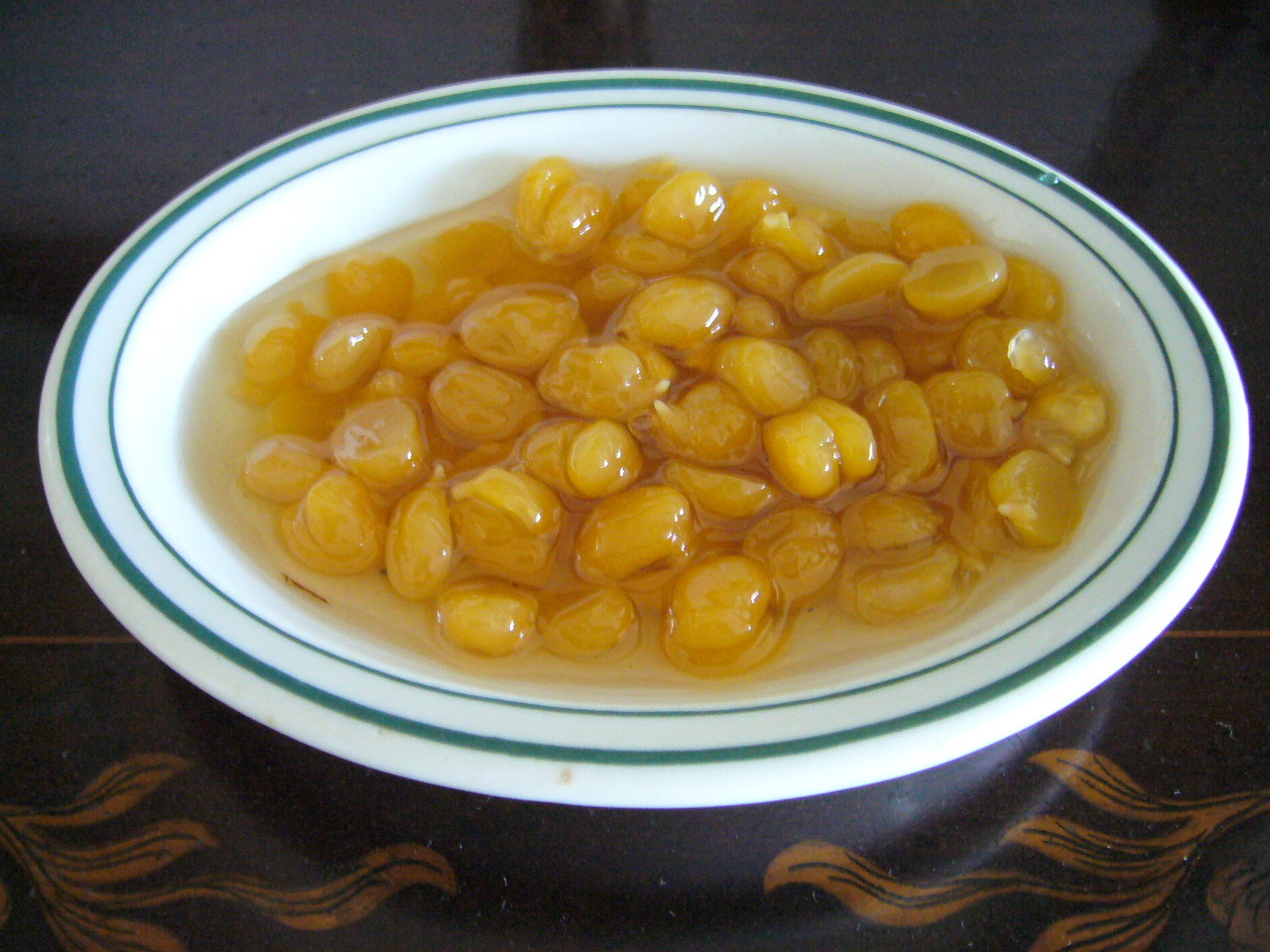 Sweet Chick Peas, Guatemalan dessert